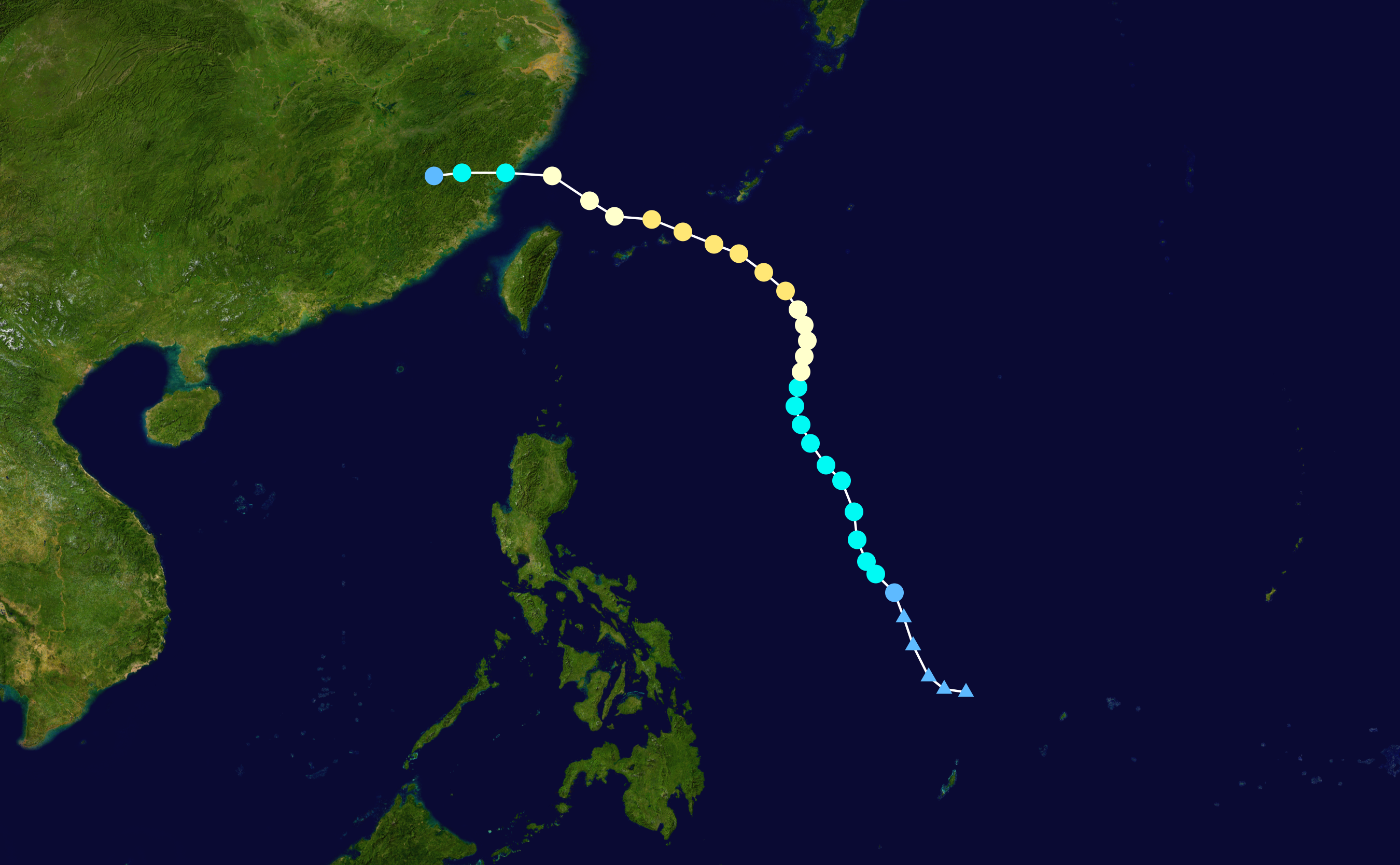 Track map of Typhoon Fitow of the 2013 Pacific typhoon season. The points show the location of the storm at 6-hour intervals. The colour represents the storm's maximum sustained wind speeds as classified in the Saffir–Simpson scale (see below), and the shape of the data points represent the nature of the storm, according to the legend below. Saffir–Simpson scale Tropical depression≤38 mph≤62 km/h Category 3111–129 mph178–208 km/h Tropical storm39–73 mph63–118 km/h Category 4130–156 mph209–251 km/h Category 174–95 mph119–153 km/h Category 5≥157 mph≥252 km/h Category 296–110 mph154–177 km/h Unknown Storm type Tropical cyclone Subtropical cyclone Extratropical cyclone / Remnant low / Tropical disturbance / Monsoon depression